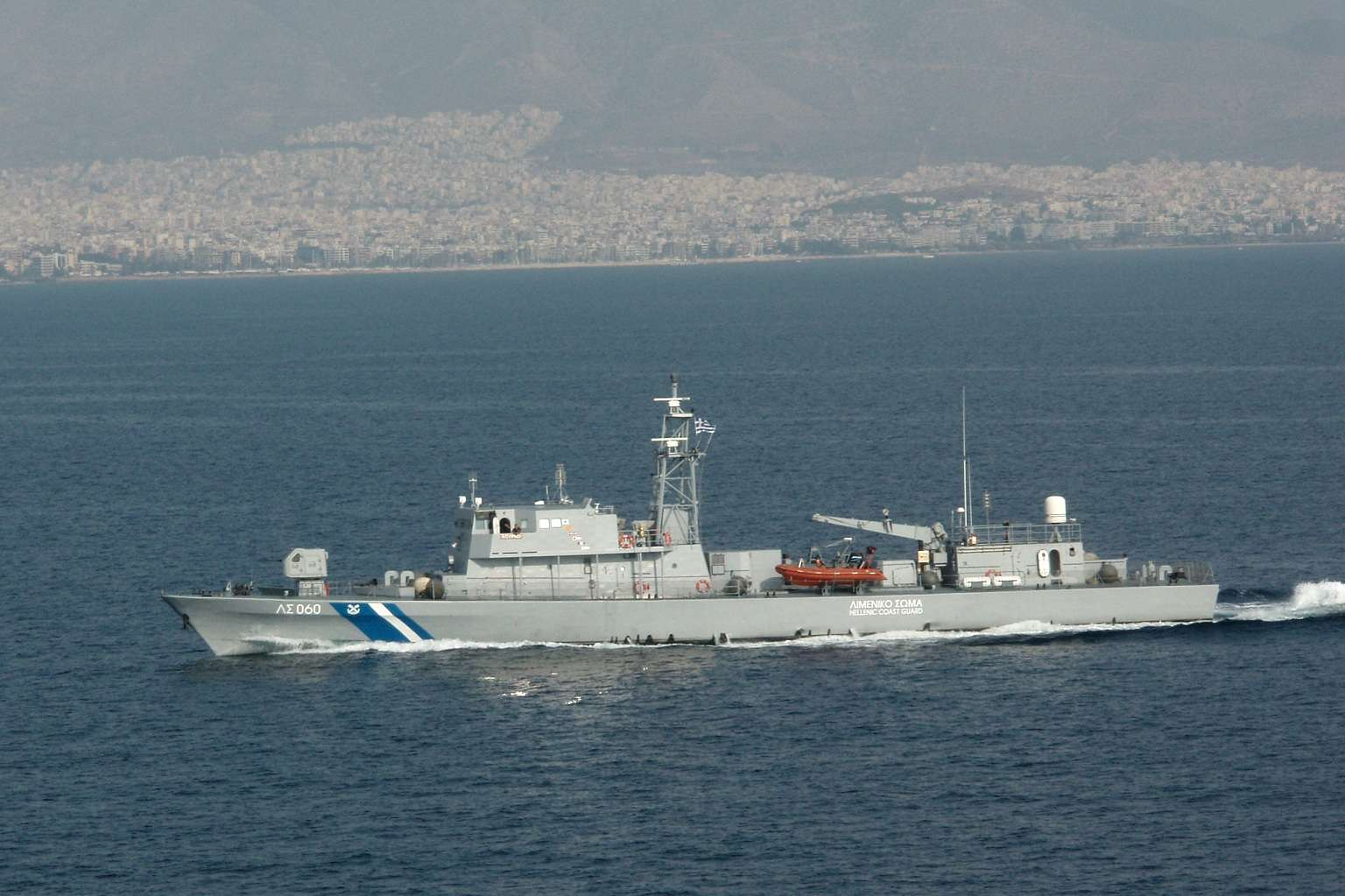 Saar IV class Open sea patrol boat PLS-060 (ΛΣ-060), SY4138, of the Hellenic Coast Guard under way in Saronikos Bay.